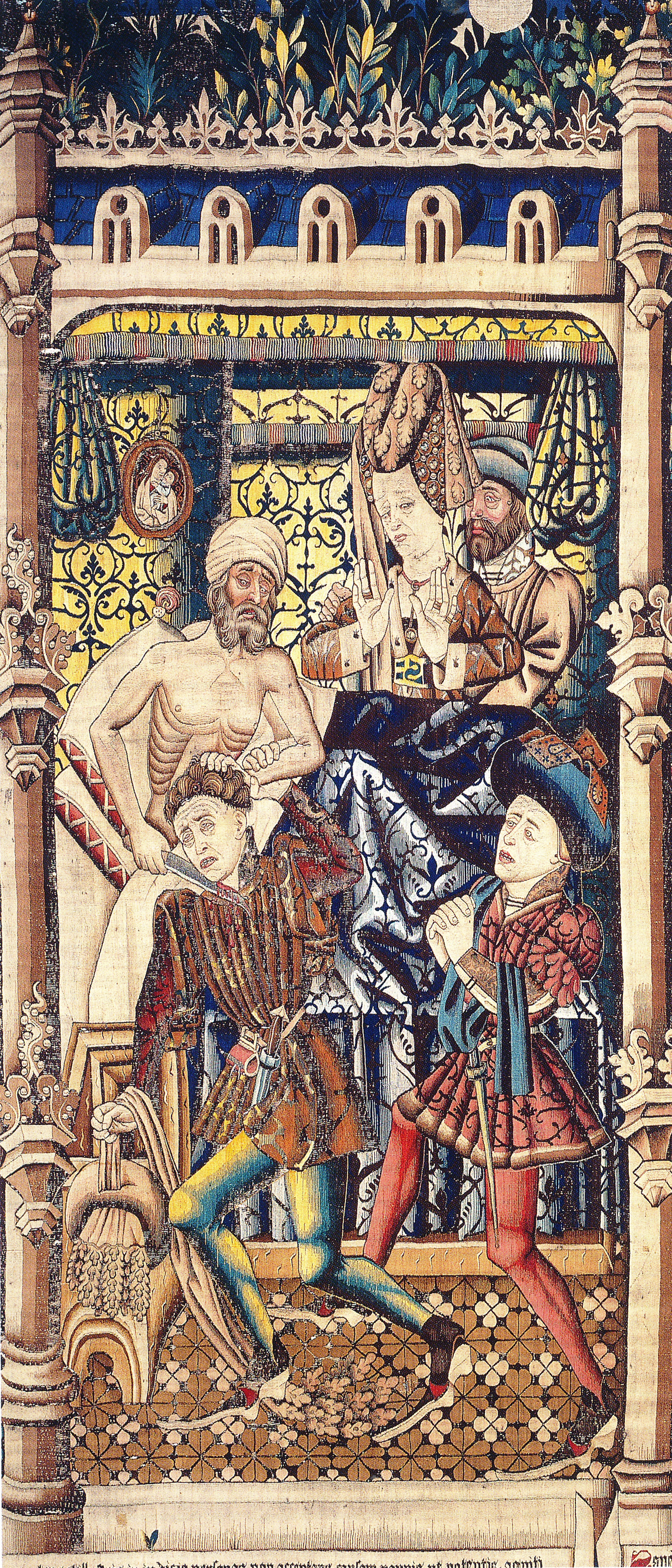 A detail from the The Justice of Trajan and Herkinbald tapestry, dating from around 1450, in the Historical Museum of Bern